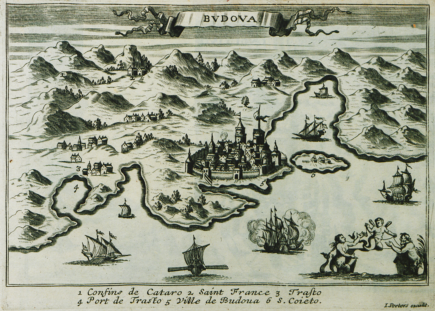 Jacob Peeters. Description des principales villes, havres et isles du golfe de Venise du coté oriental. Comme aussi des villes et forteresses de la Moree, et quelques places de la Grèce, Antwerp, Sur le marché des vieux Souliers, 1690.